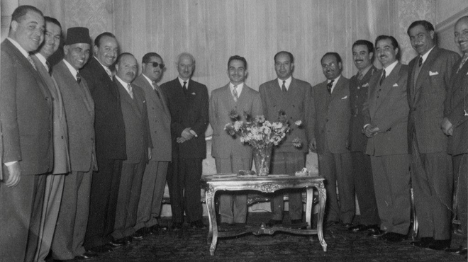 King Hussein with Prime Minister Suleiman Nabulsi and others, 1956